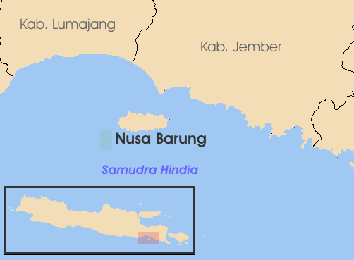 Location of Nusa Barung island, East Java province, Indonesia